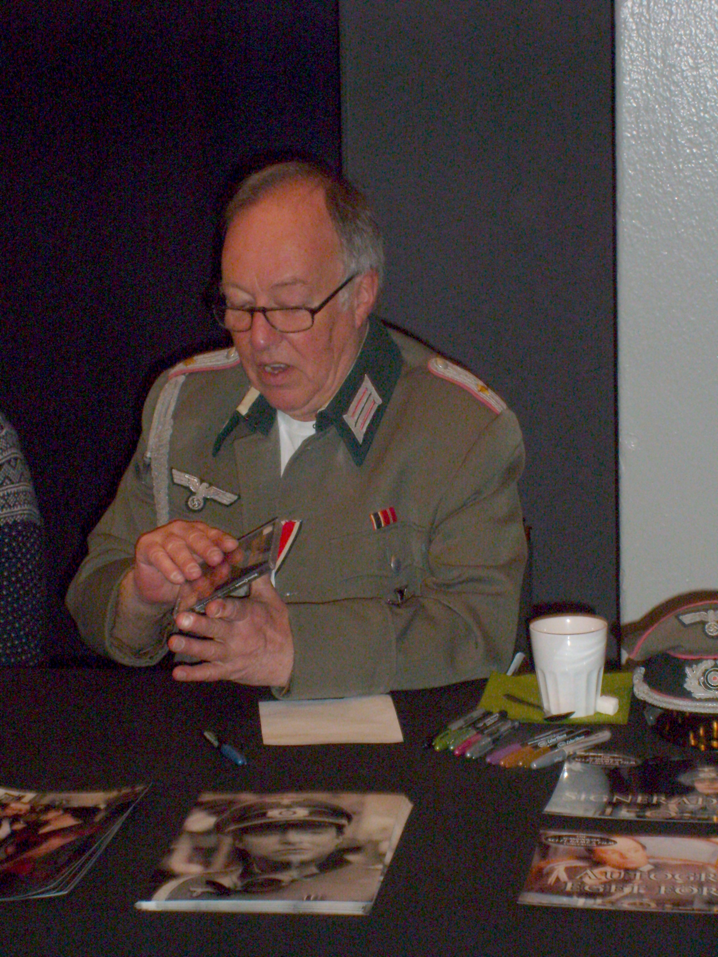 Guy Siner, british actor